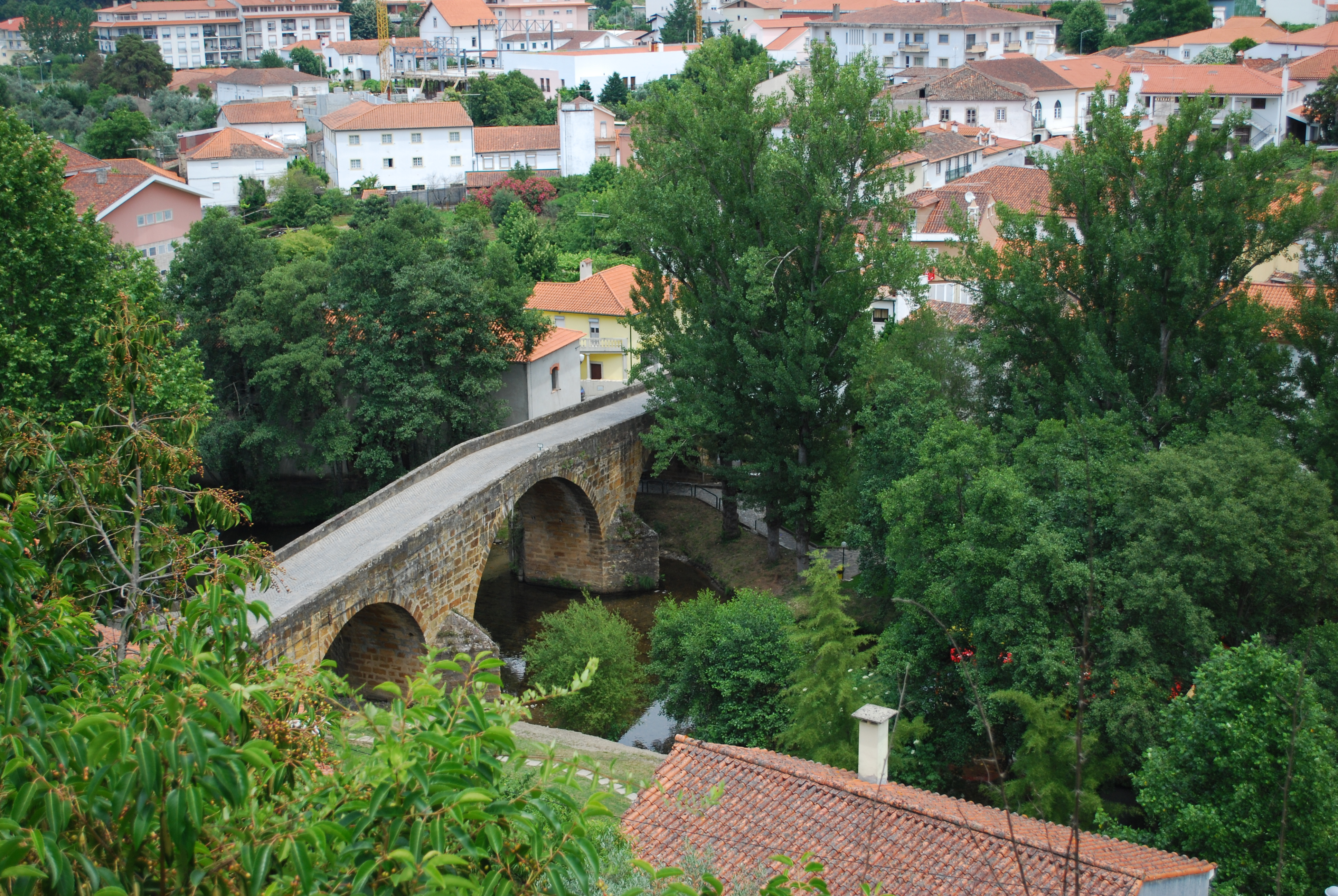 This file was uploaded for Wiki Loves Monuments in Portugal with the unique identifier 69763.